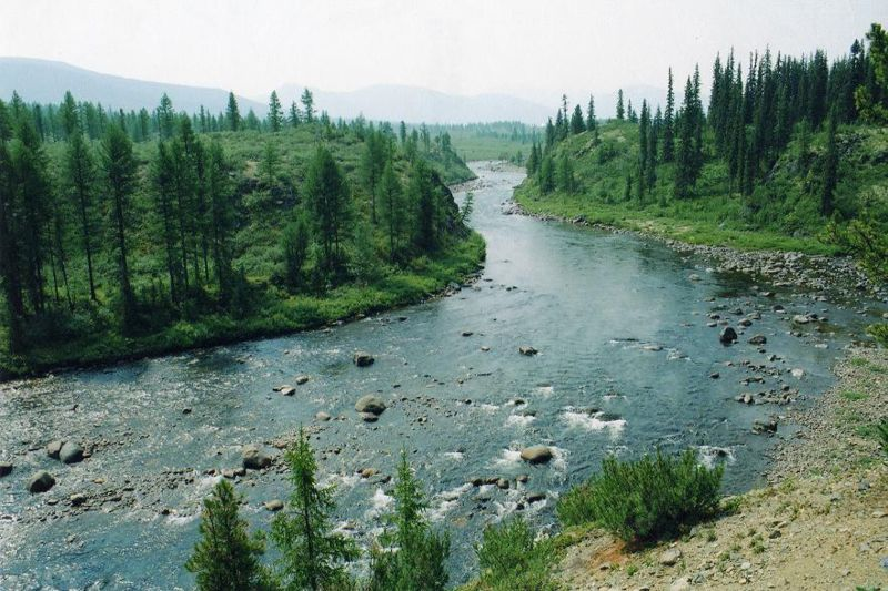 Chaya River in Eastern Siberia.